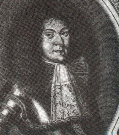 John Ernest IV, Duke of Saxe-Coburg-Saalfeld